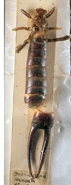 Labidura herculeana (St. Helena earwig) specimen at the Jamestown Museum